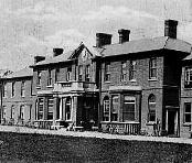 Old photograph of Officers Mess at Inglis Barracks in Mill Hill